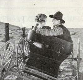 Still from the American film The Galloping Kid (1922) with Hoot Gibson and Edna Murphy, on page 11 of the September 2, 1922 Universal Weekly.